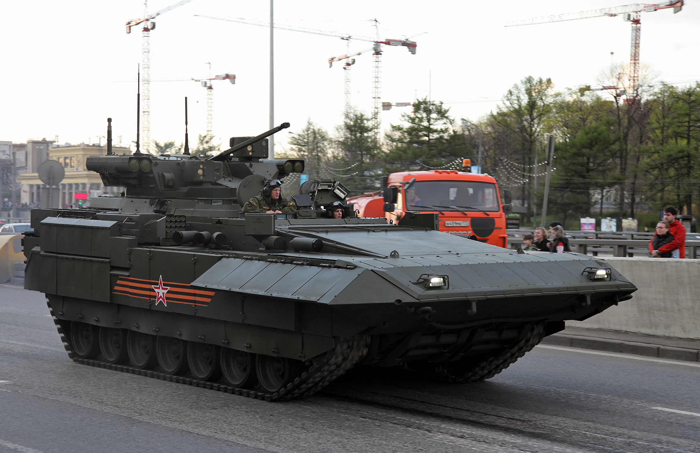 Heavy IFV T-15 object 149 Armata